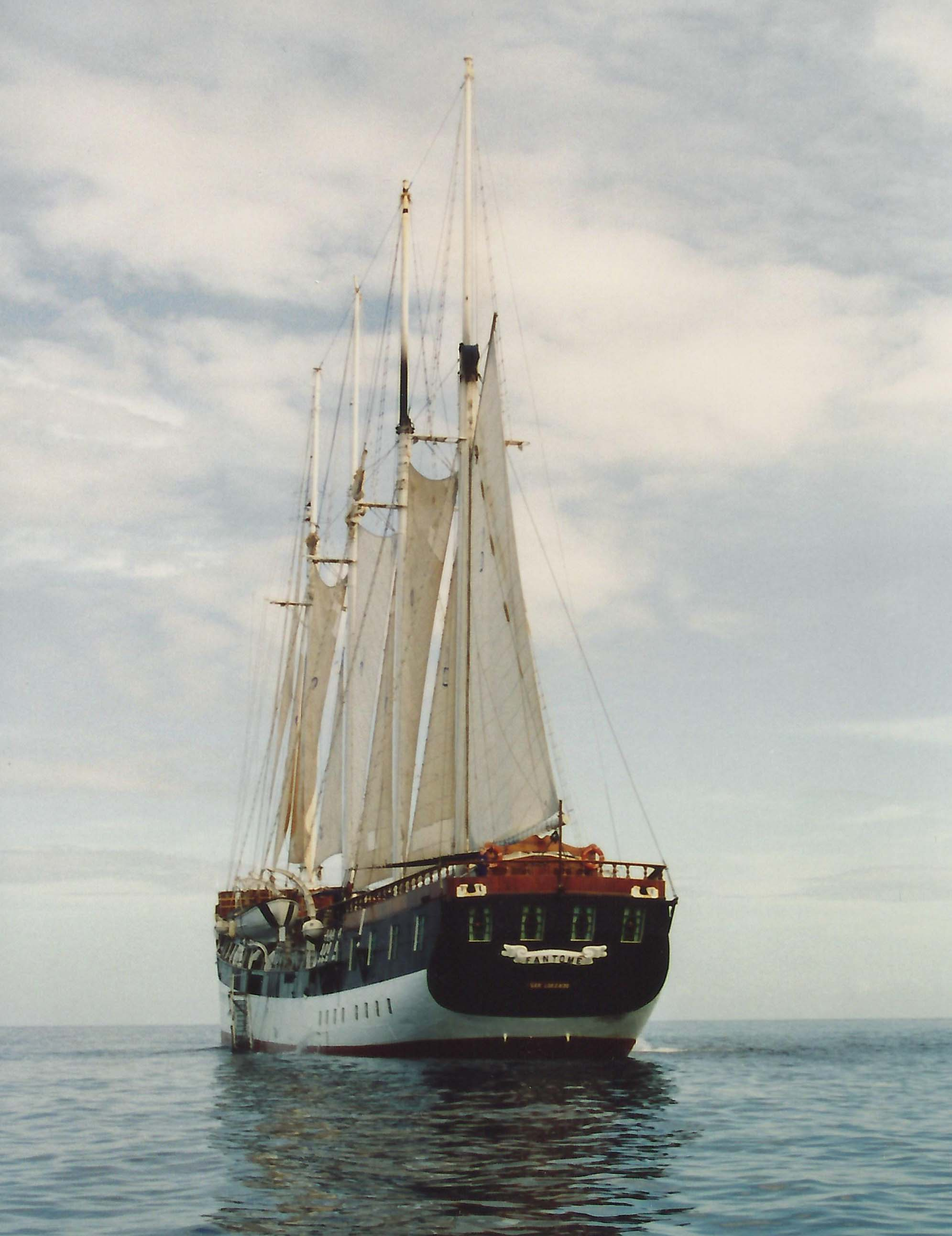 Windjammer Barefoot Cruise Lines' SV Fantome off of Dominica